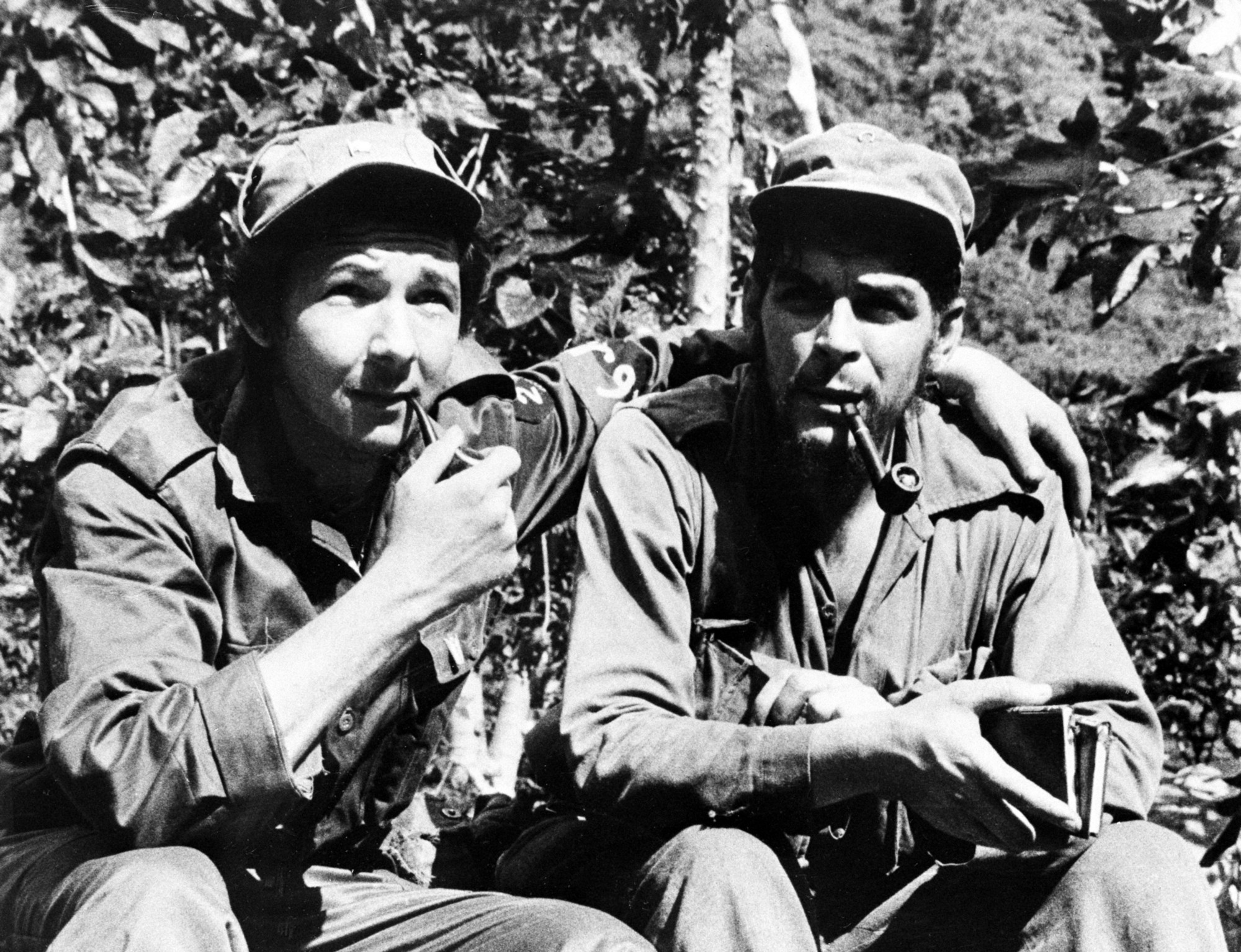 Raúl Castro, left, with has his arm around second-in-command, Ernesto “Che” Guevara, in Cuba. In their Sierra de Cristal Mountain stronghold south of Havana, in 1958 during the Cuban Revolution.